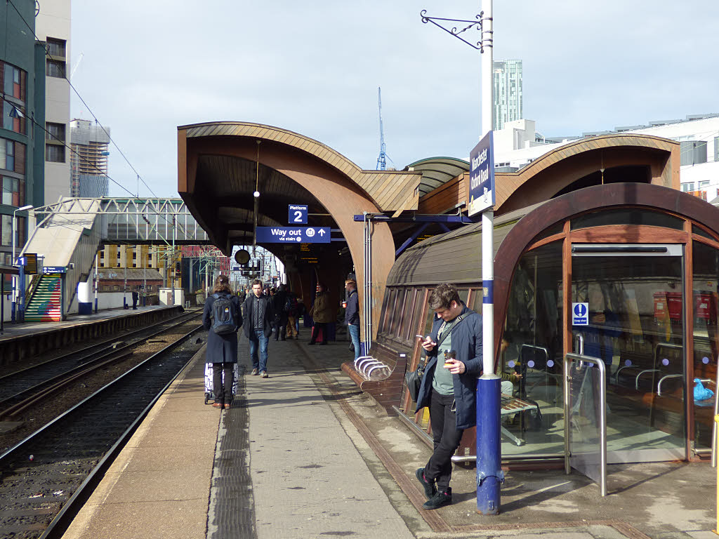 Oxford Road station - platform canopy and waiting room